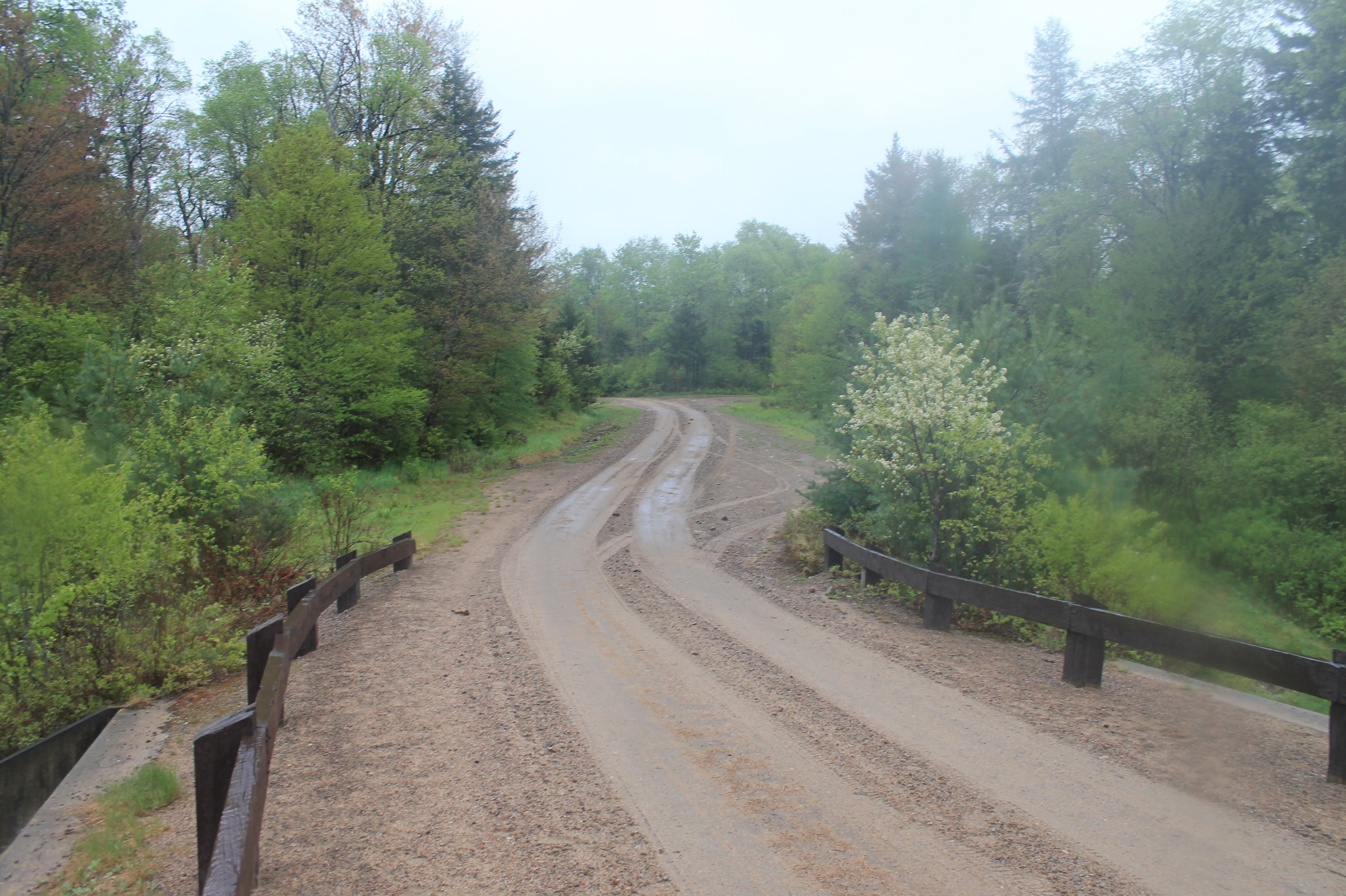 Moose River Plains access road.